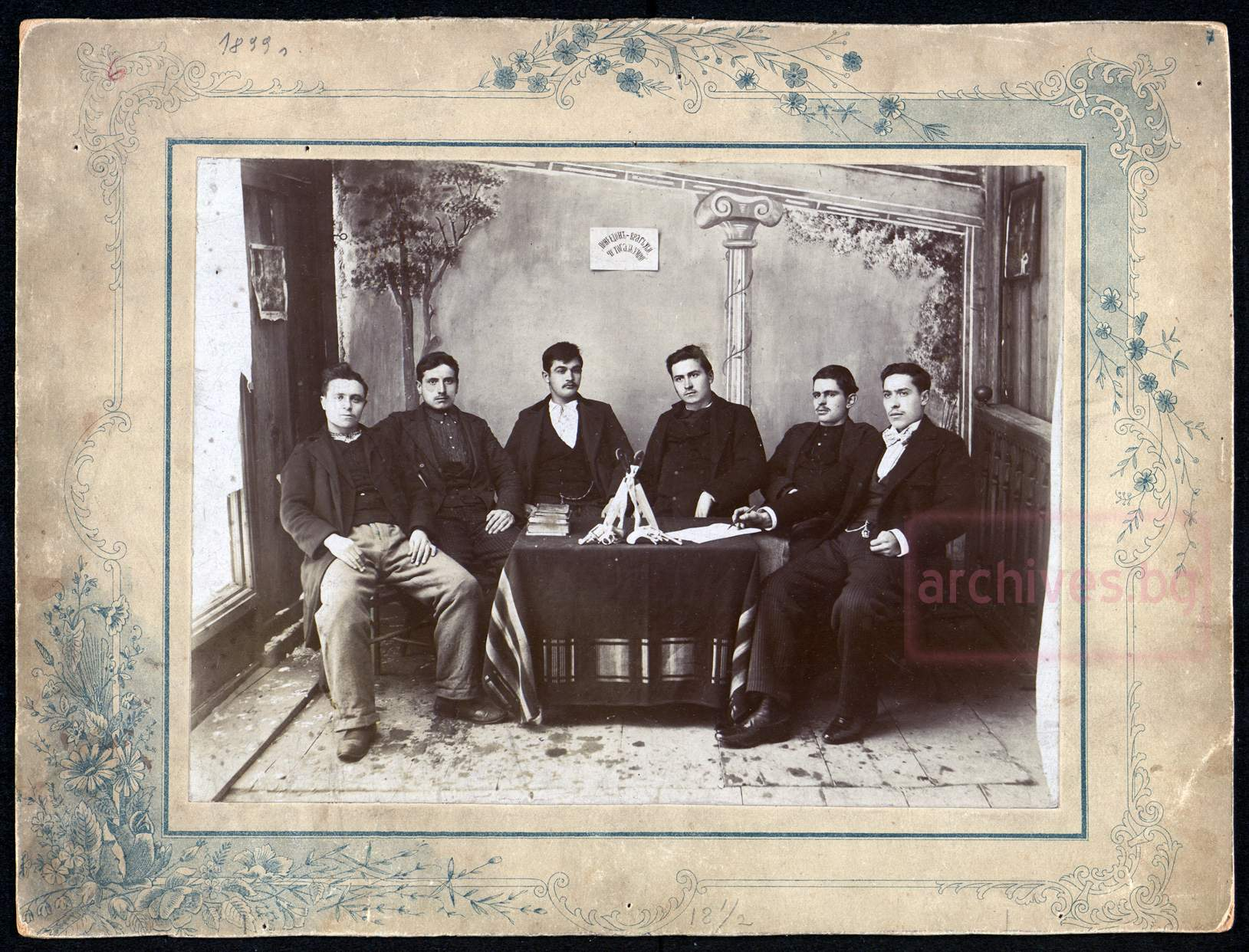 Revolutionaries first Nikola Zhekov, third Nikola Dechev, together with Petar Samardzhiev